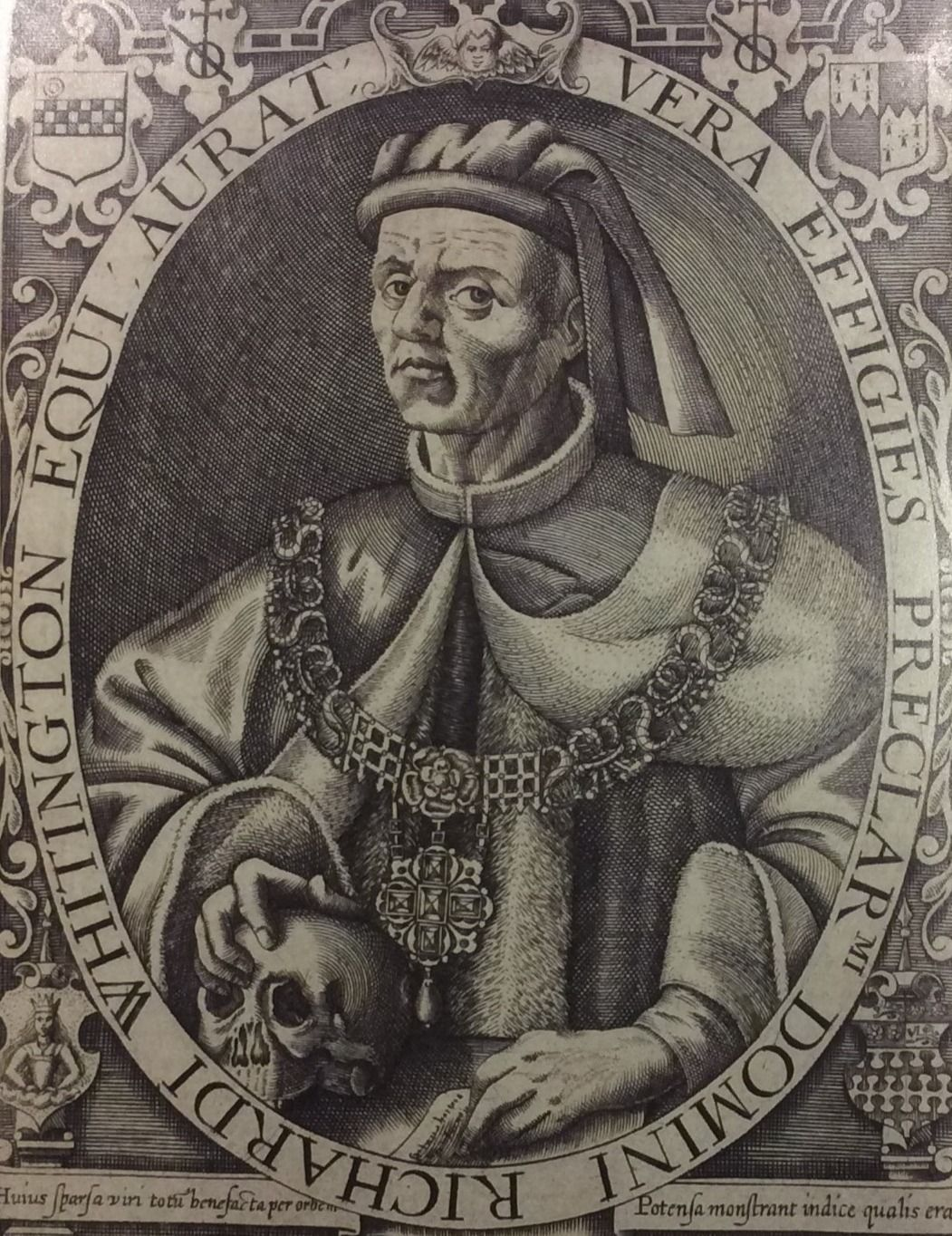 Richard Whittington with Skull, by Renold Elstracke. The original version.